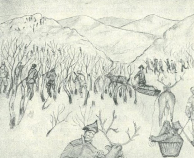 Finnish troops of the 1918 Pechenga expedition. A sketch by Thorsten Renvall (1868-1927).